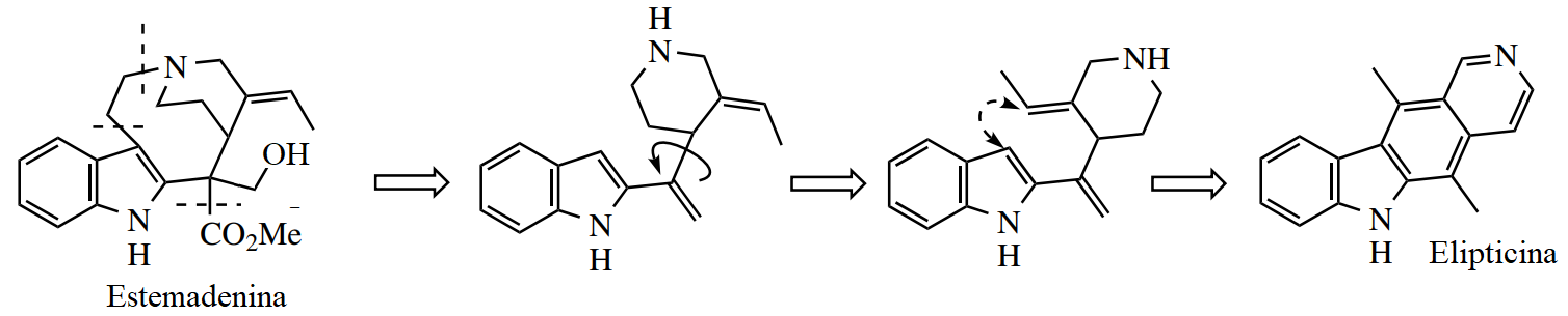 Required for alkaloids an shikimic pathway pages.